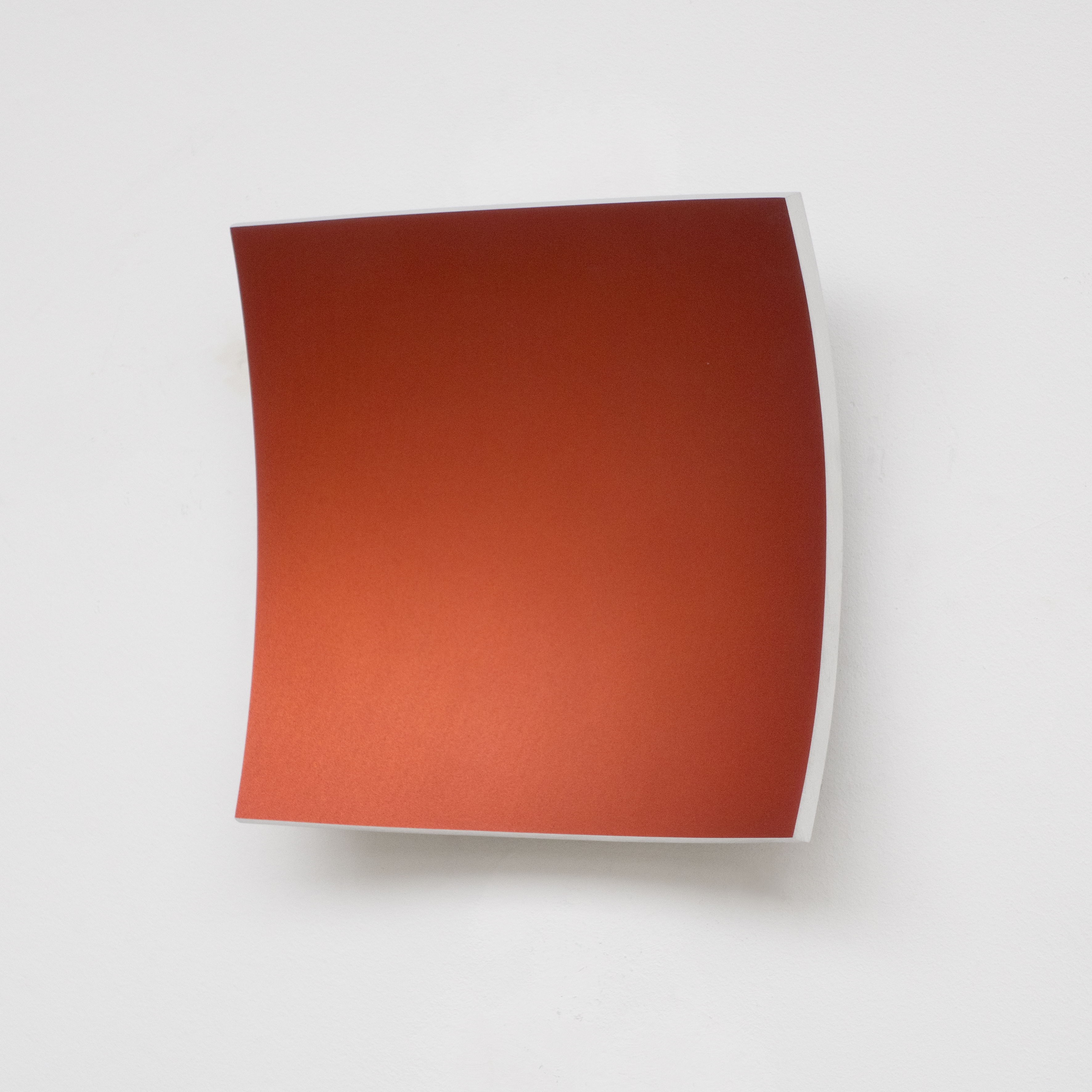 wall-sculpture, 2016, anodized aluminum, 11x11x3.5 inch